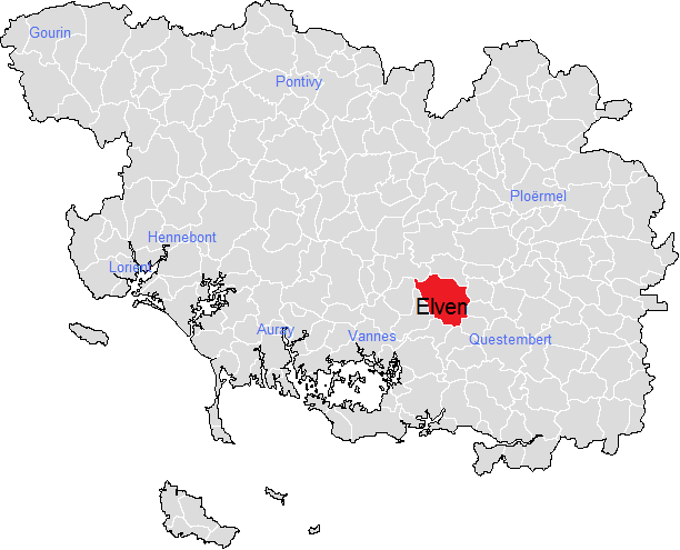 placement Elven in departement Morbihan